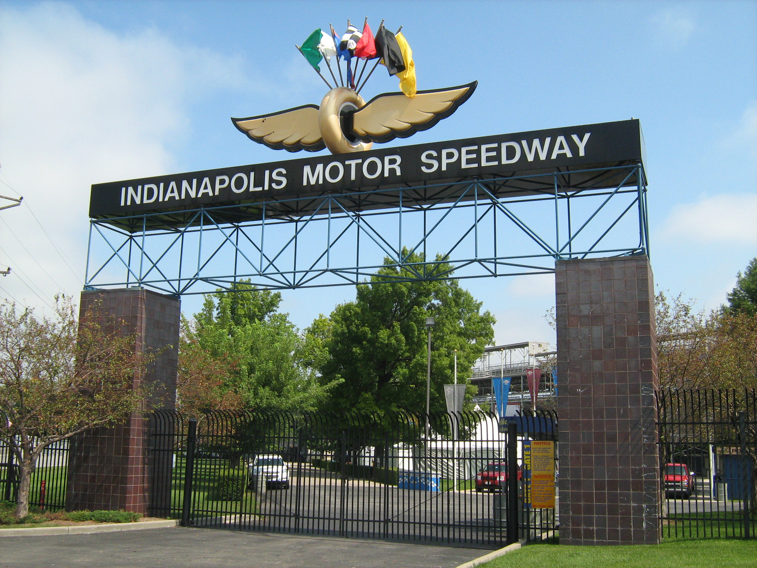 Indianapolis Motor Speedway - Gate #1